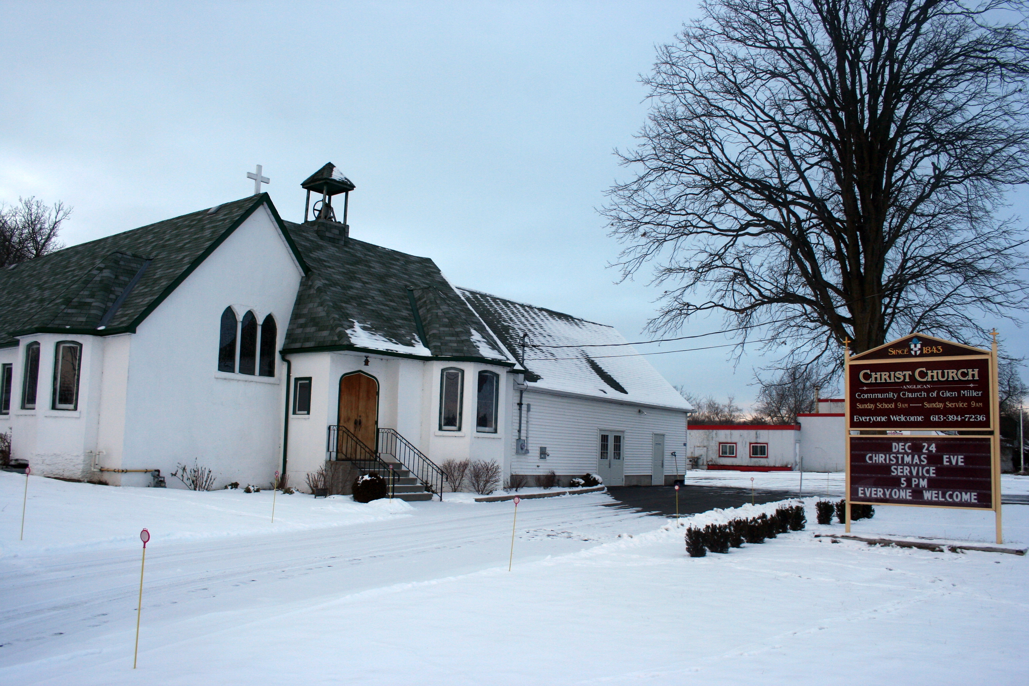 Sign announcing Christmas services